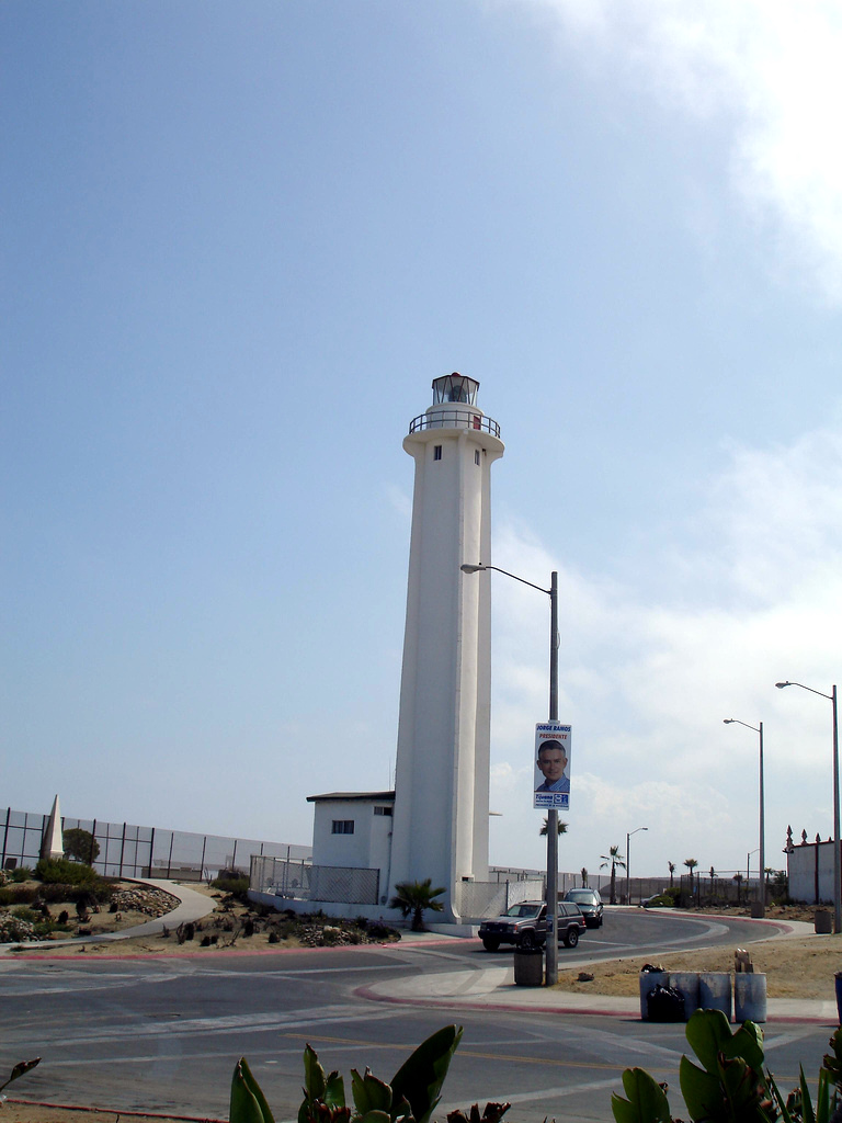 Tijuana Lighthouse adjacent to San Diego-Tijuana Border